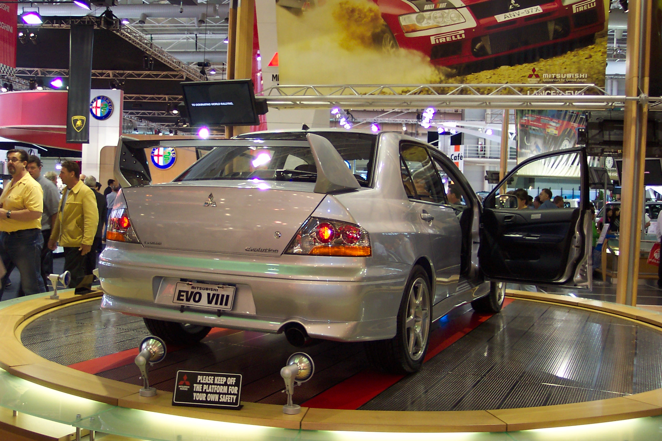 2003 Mitsubishi Lancer Evo VIII sedan. Taken at the 2003 Sydney International Motor Show.